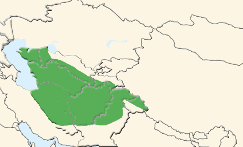 Urial range (Ovis vignei - sometime ovis orientalis).